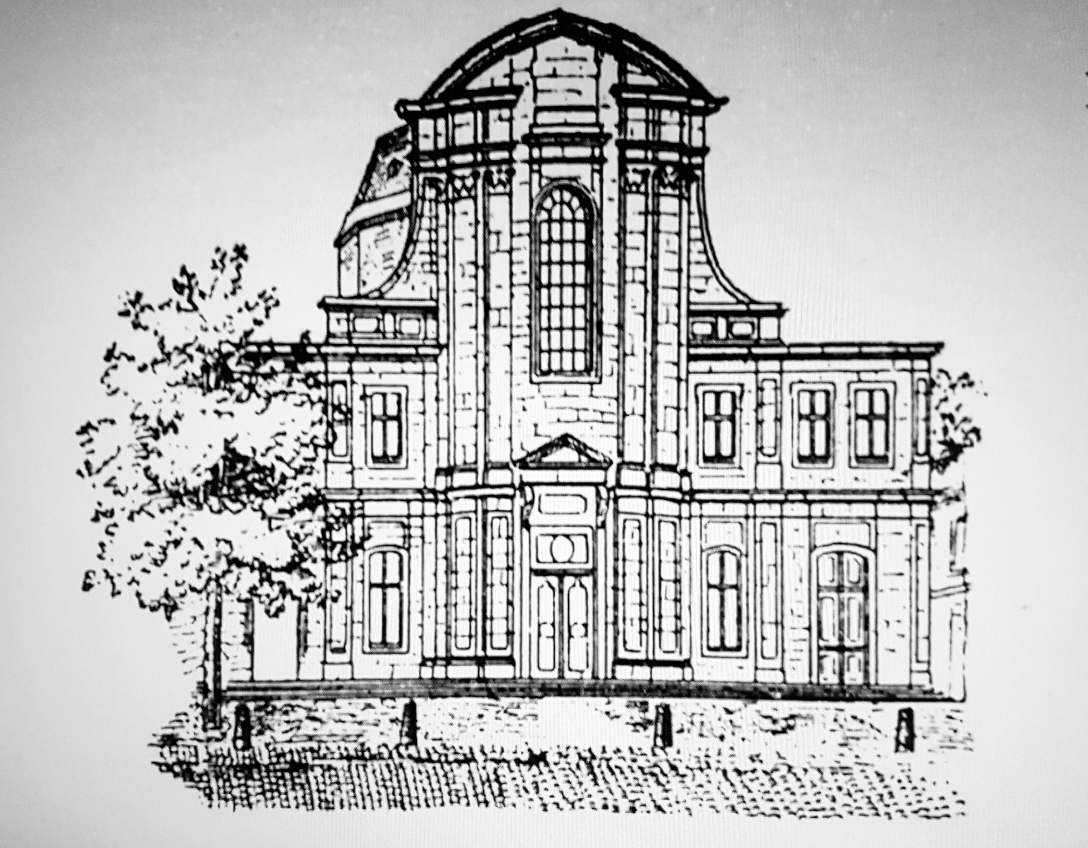 Drawing (befor 1881) of the former baroque church in Bonn, named „Stiftskirche“ St. Peter